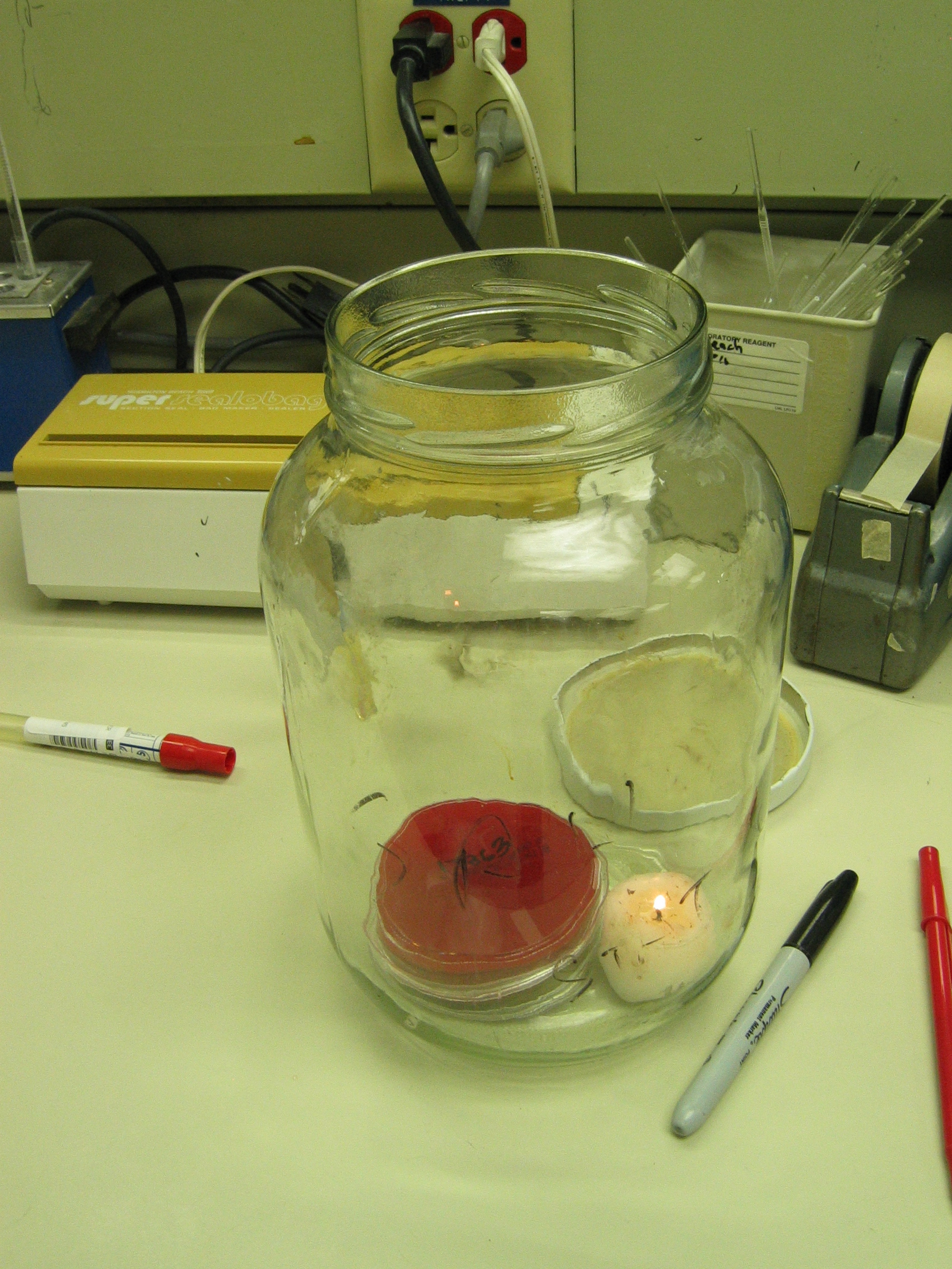 Anaerobiosis produced by a sealed jar and a candle inside, so microorganisms in the culture plates can survive and grow.